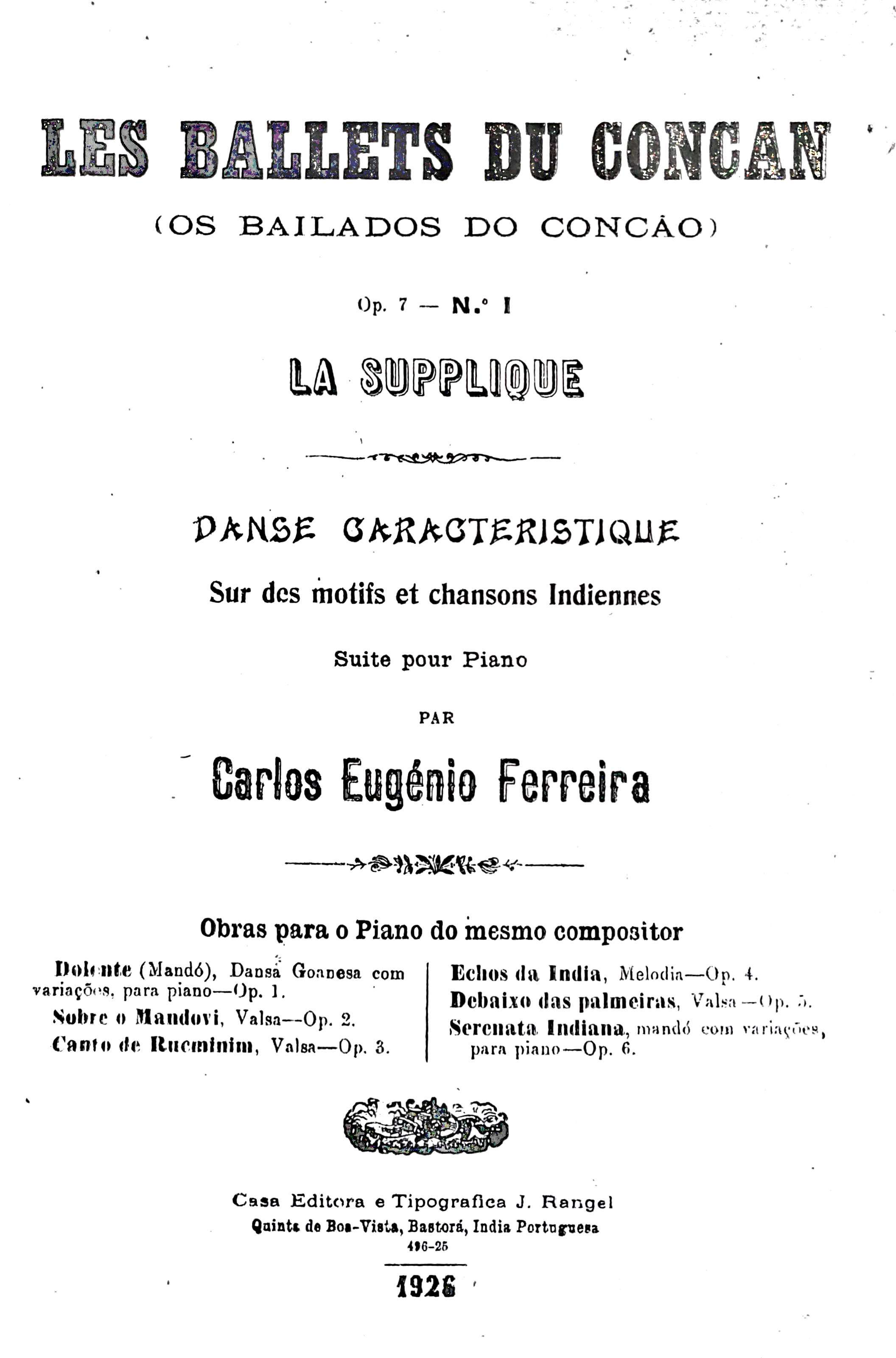 The published ballad of Carlos Eugenio Ferreira in 1926 by Tipografia Rangel